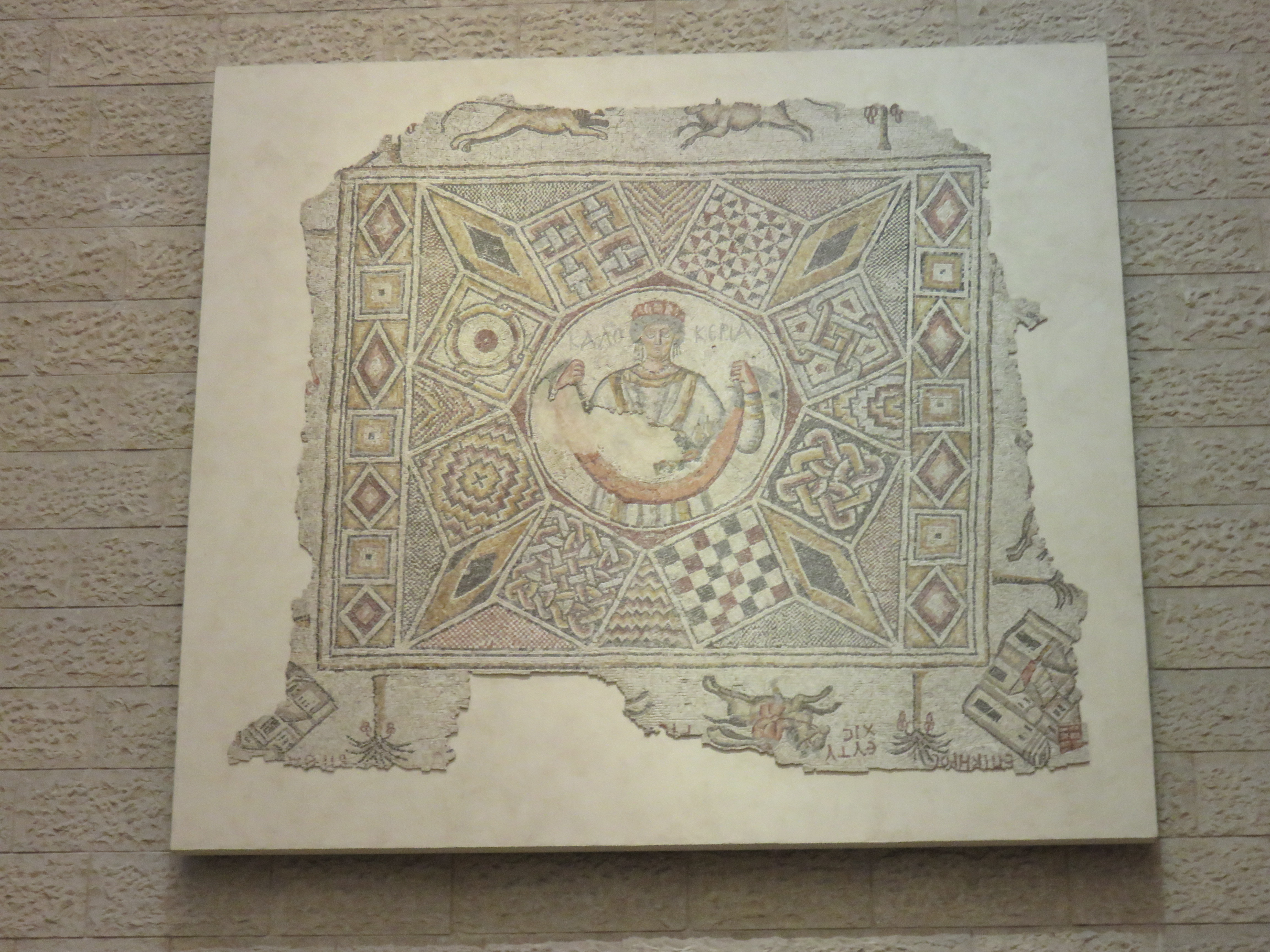 Ben Gurion International Airport